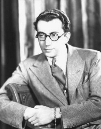 Rouben Mamoulian (pronounced: roo-BEN ma-mool-YAN[1] (October 8, 1897 – December 4, 1987) was an Armenian-American film and theatre director.